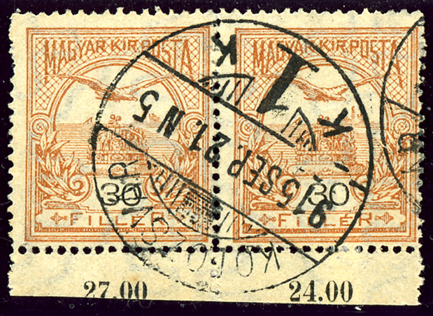 Kingdom of Hungary stamps issue 1913, 30 fillér pair, orange-brown (SG182) cancelled Kolozsvar 1, Transylvania (Romania) in 1915.